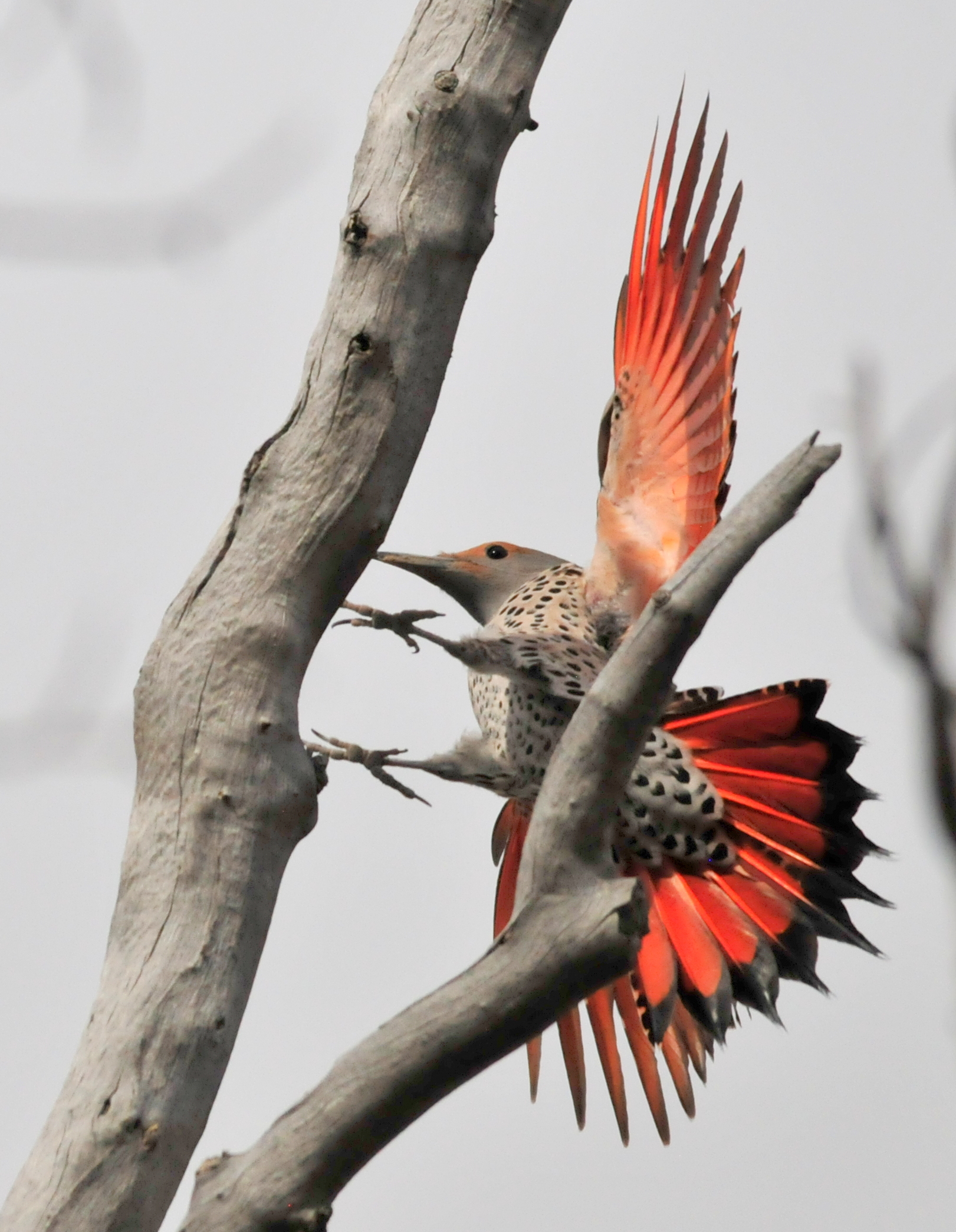 A female Northern (red-shafted) flicker on Seedskadee National Wildlife Refuge. Photo: Tom Koerner/USFWS